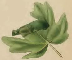 Stainton’s Natural History of the Tineina (1855–1873): Caloptilia semifascia Leaf of maple, with a portion rolled into a cone by the larva